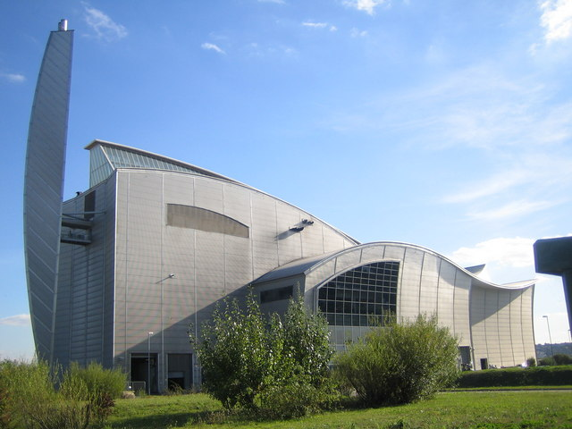 Crossness Sewage Treatment Works: Sludge powered generator Up until 1998 the sludge from Thames Water's Crossness Sewage Treatment Works was carried out to the North Sea and dumped from a ship. However to accord with an EC directive banning such activities, Thames Water built this generator which uses the sludge and generates up to 5 megawatts of electricity, about ¾ of the works' requirements.